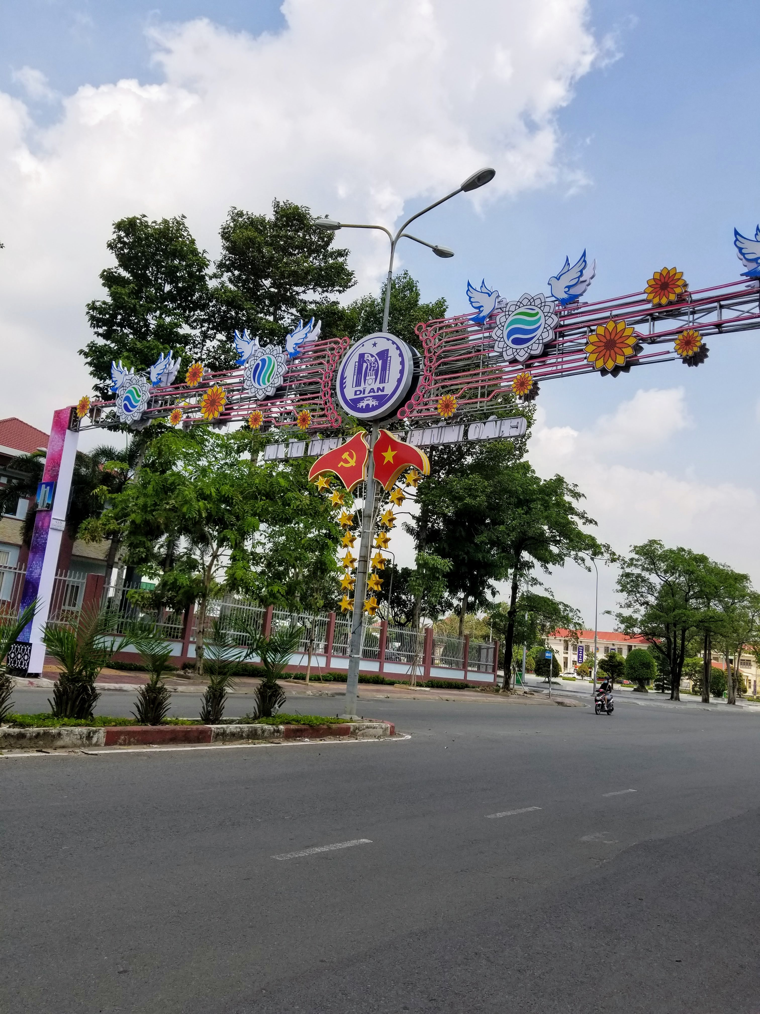 Seal of Di An City (June 4th 2020)